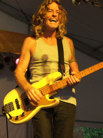 Mark Andes with Ian McLagan at ACL Music Festival (2006)